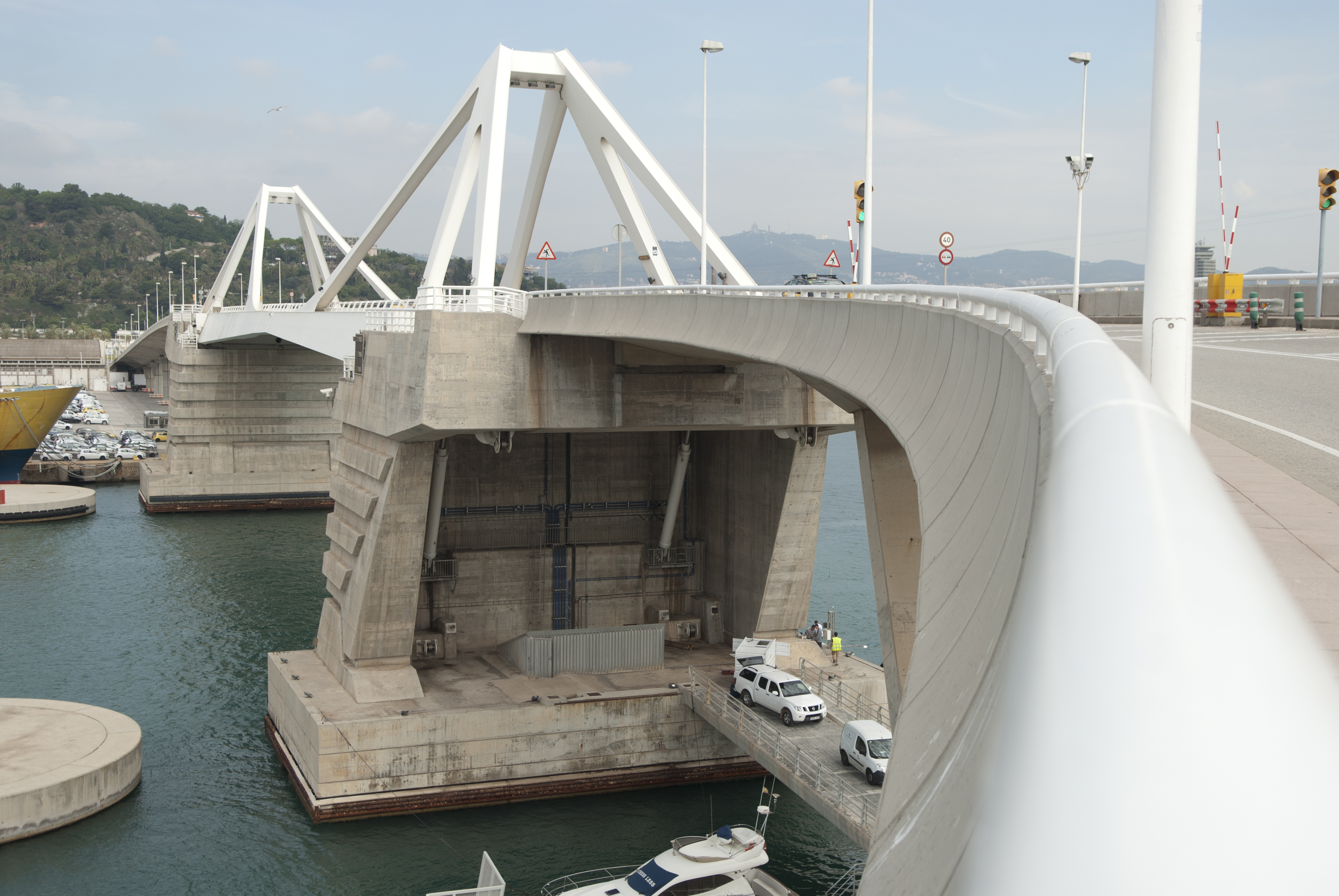 Photo of Pont Porta d'Europa.